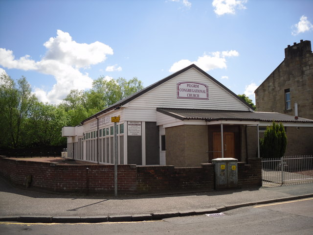 Pilgrim Congregational Church in Airdrie This small Church can be found near Airdrie Train Station on Victoria Place, Airdrie.